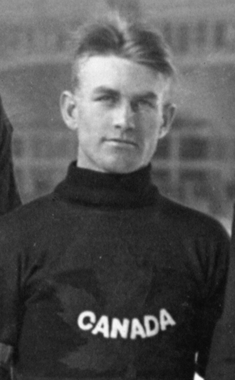 Ice hockey player Robert "Bobby" Benson of the Winnipeg Falcons representing the Canadian national ice hockey team at the 1920 Summer Olympics in Antwerp, Belgium. The picture is a crop out of a larger team photo taken inside the ice rink Palais de Glace d'Anvers. The ice hockey tournament at the 1920 summer Olympics took place between April 23 and April 29. The canadian team won gold medals at the games.